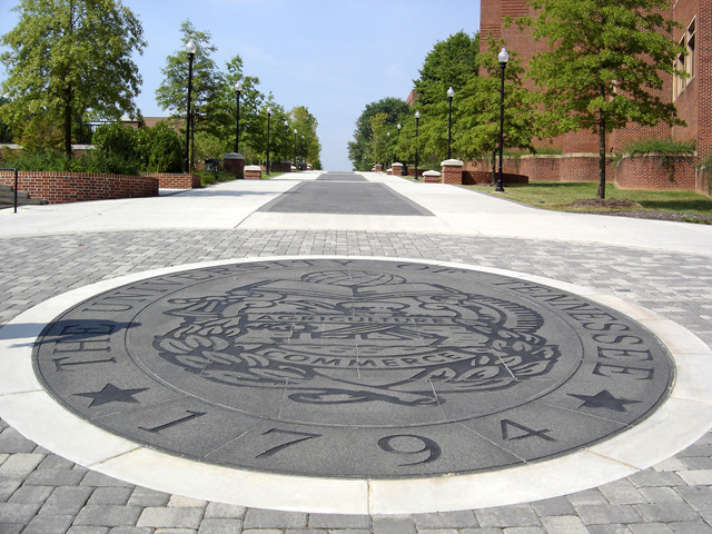 Joe Johnson and John Ward Pedestrian Mall, The University of Tennessee